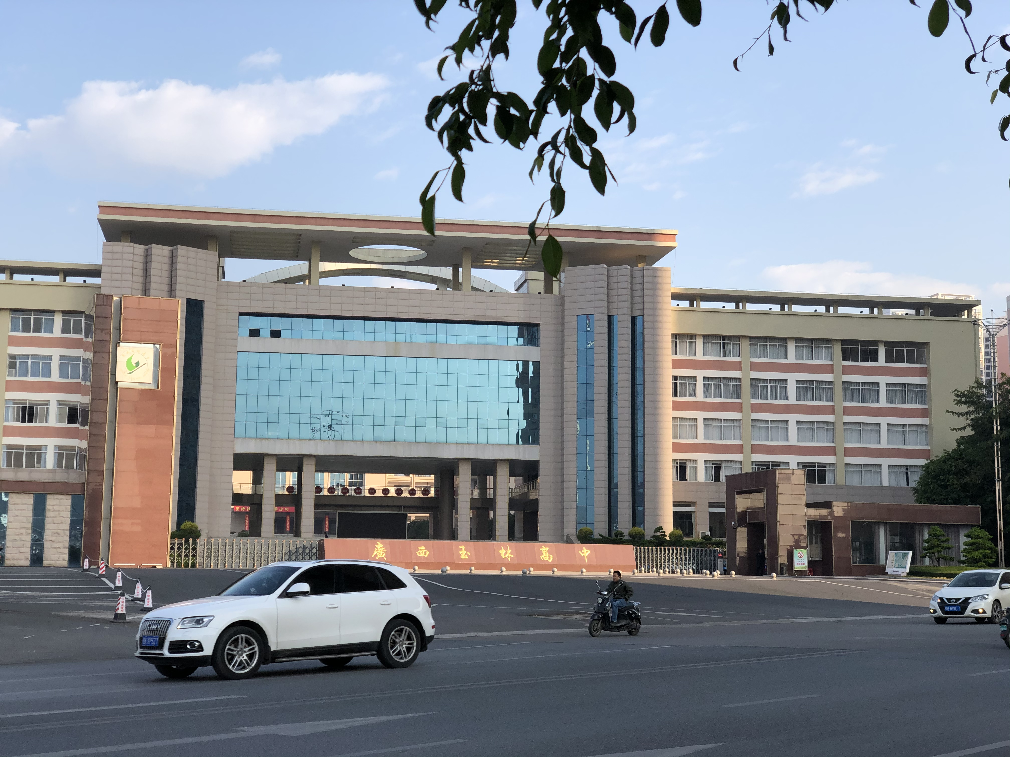 玉林高中正门